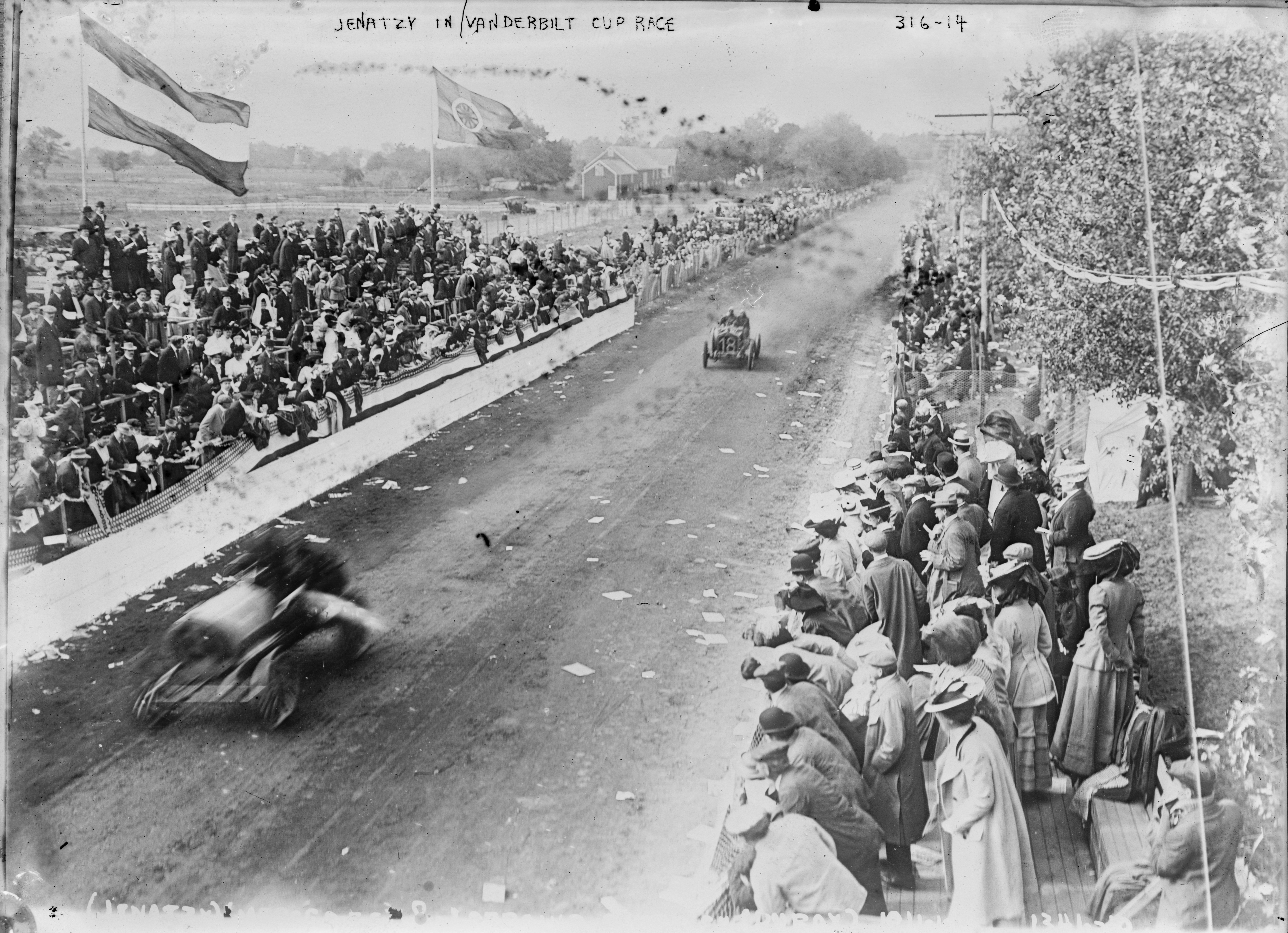 Camille Jenatzy (#3) and Arthur Duray (#18) the 1906 Vanderbilt Cup race